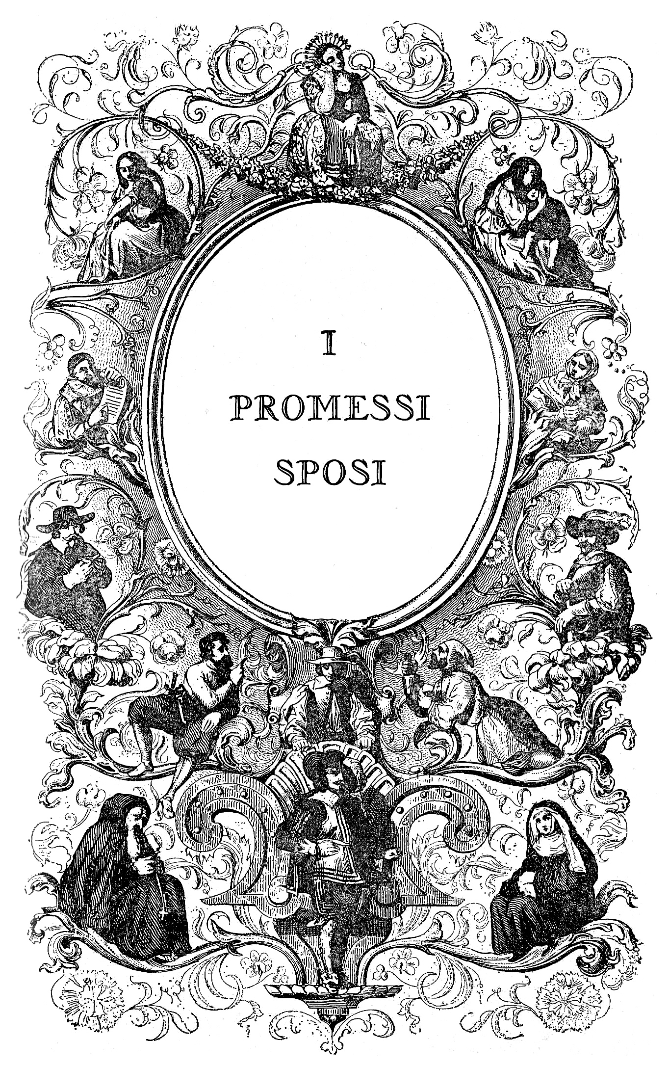 The cover of the second edition of "I promessi sposi"